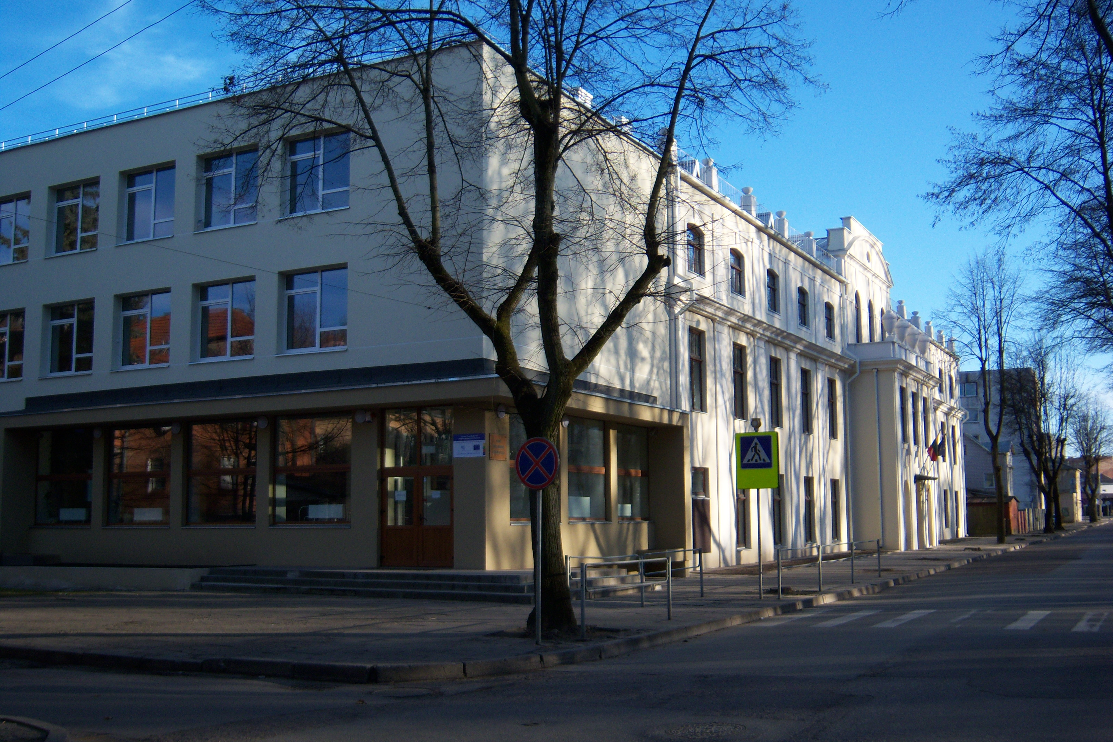 Progymnasium of Vincas Kudirka, Kaunas, Lithuania